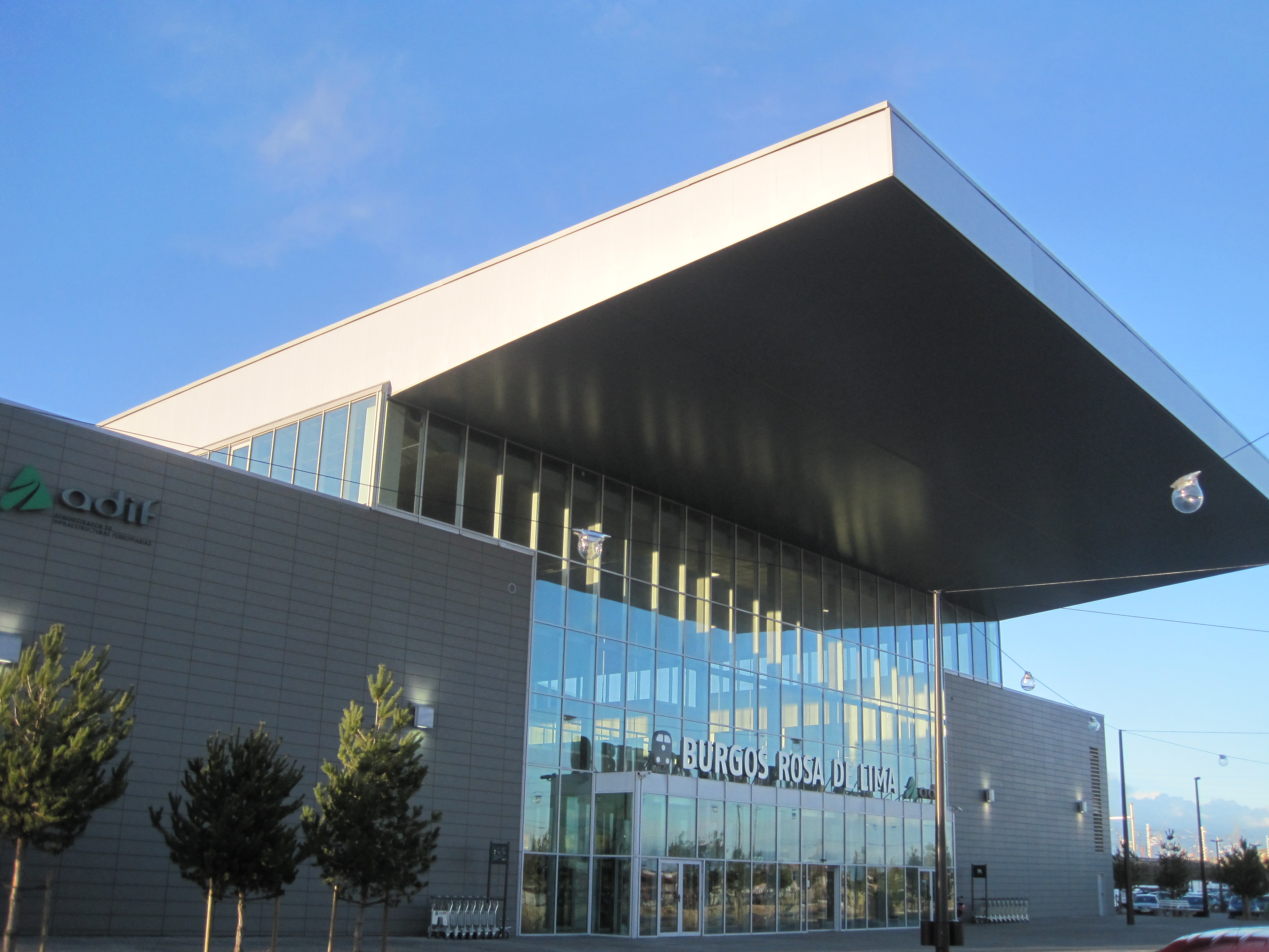 Burgos Train Station (Burgos, Castile and León, Spain).